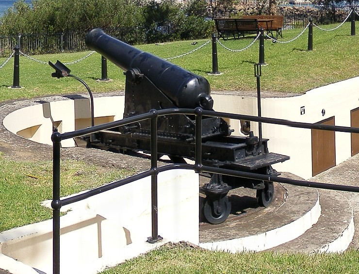 Photograph of British RML 80 pounder 5 ton gun at Smiths Hill Fort, Wollongong, NSW, Australia.